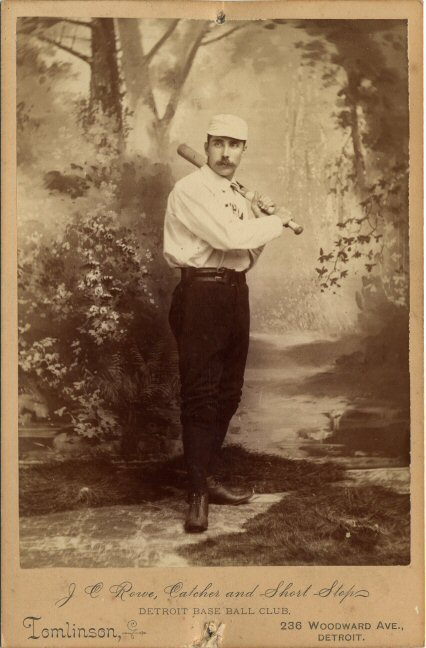 Tomlinson Studios Cabinet Photograph of Jack Rowe